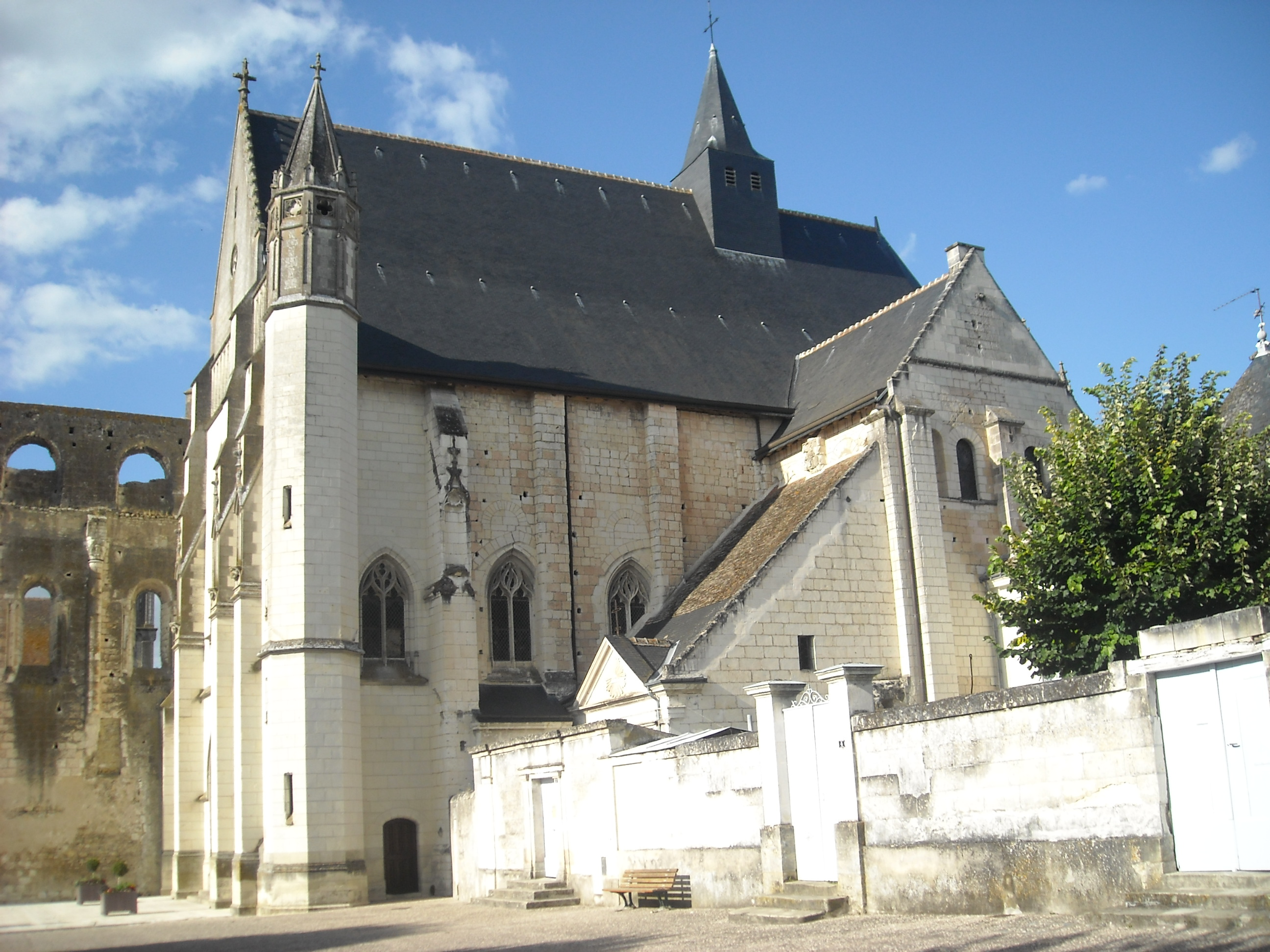 Church of Beaulieu lès Loches (France)